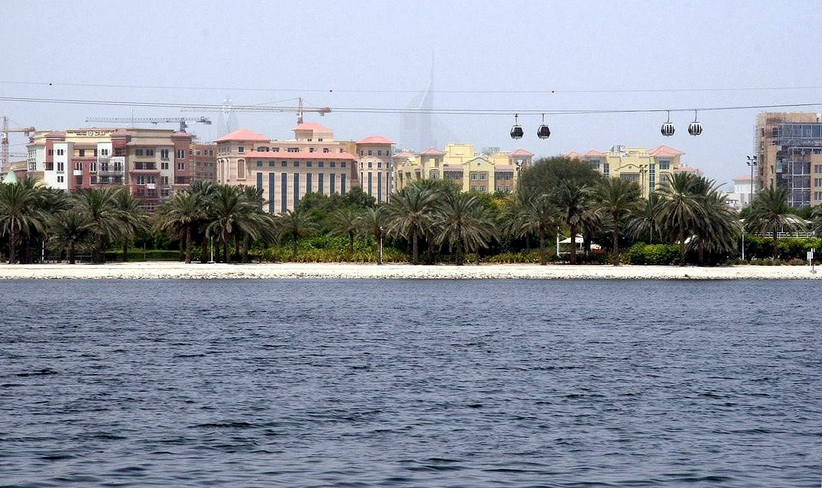 This is a photo showing the buildings in Dubai Healthcare City in Dubai, United Arab Emirates as seen from Dubai Creek on 31 May 2007. The greenery between the buildings and the water is Creek Park. Skyscrapers along Sheikh Zayed Road can be seen in the background. The building on the left is the Rose Rotana Tower and the buildings on the right are the Emirates Towers.